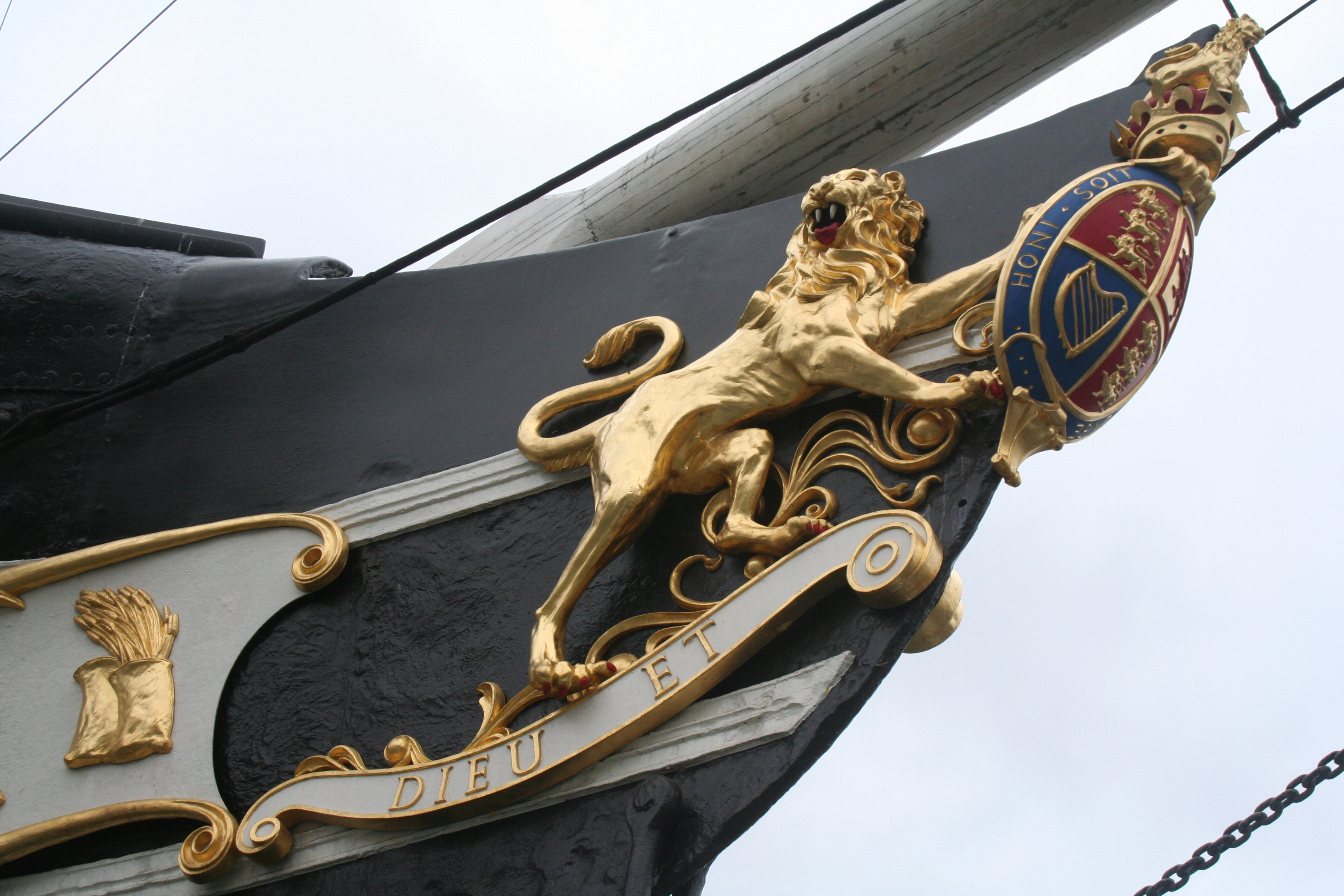 Steamship SS Great Britain, figurehead, starboard side (("Dieu et [Mon Droit]", "Honi Soit [Qui Mal Y Pense]")